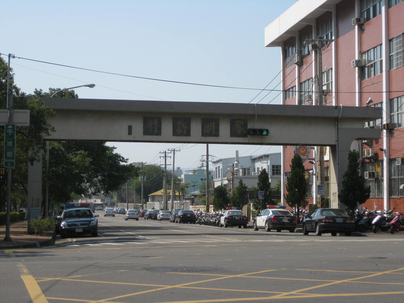 Liming New Village is also called the Liming Village. A view is the Paifang of Liming New Village in Taichung City,its lies at the intersection of Liming Rd. and Gancheng St.